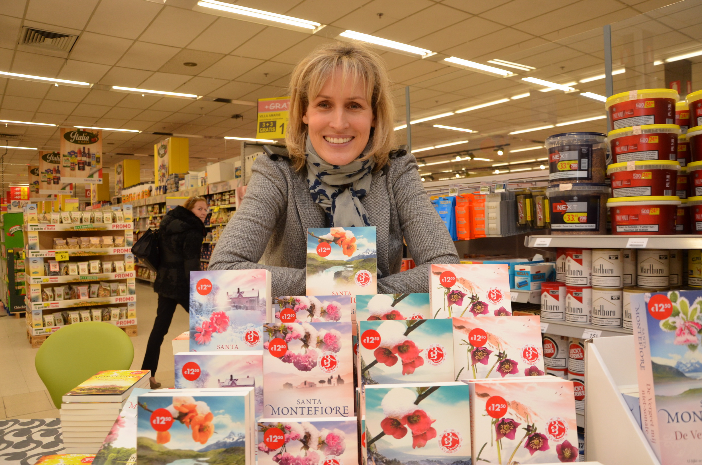 Santa Montefiore is a writer from the United Kingdom